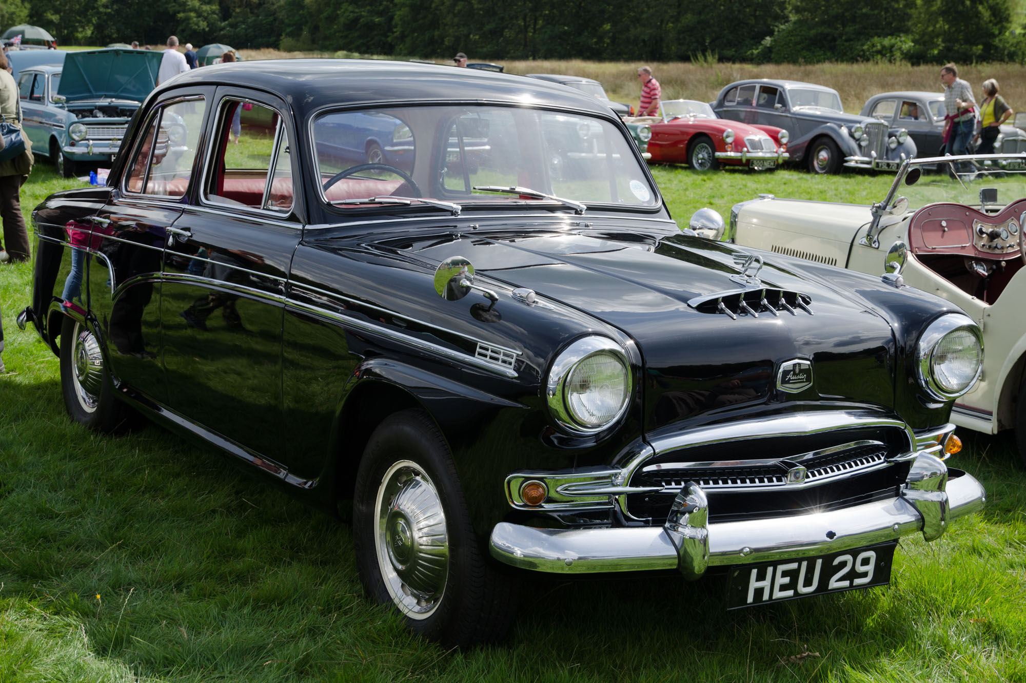 Capesthorne Hall Classic Car Show 24/08/2014